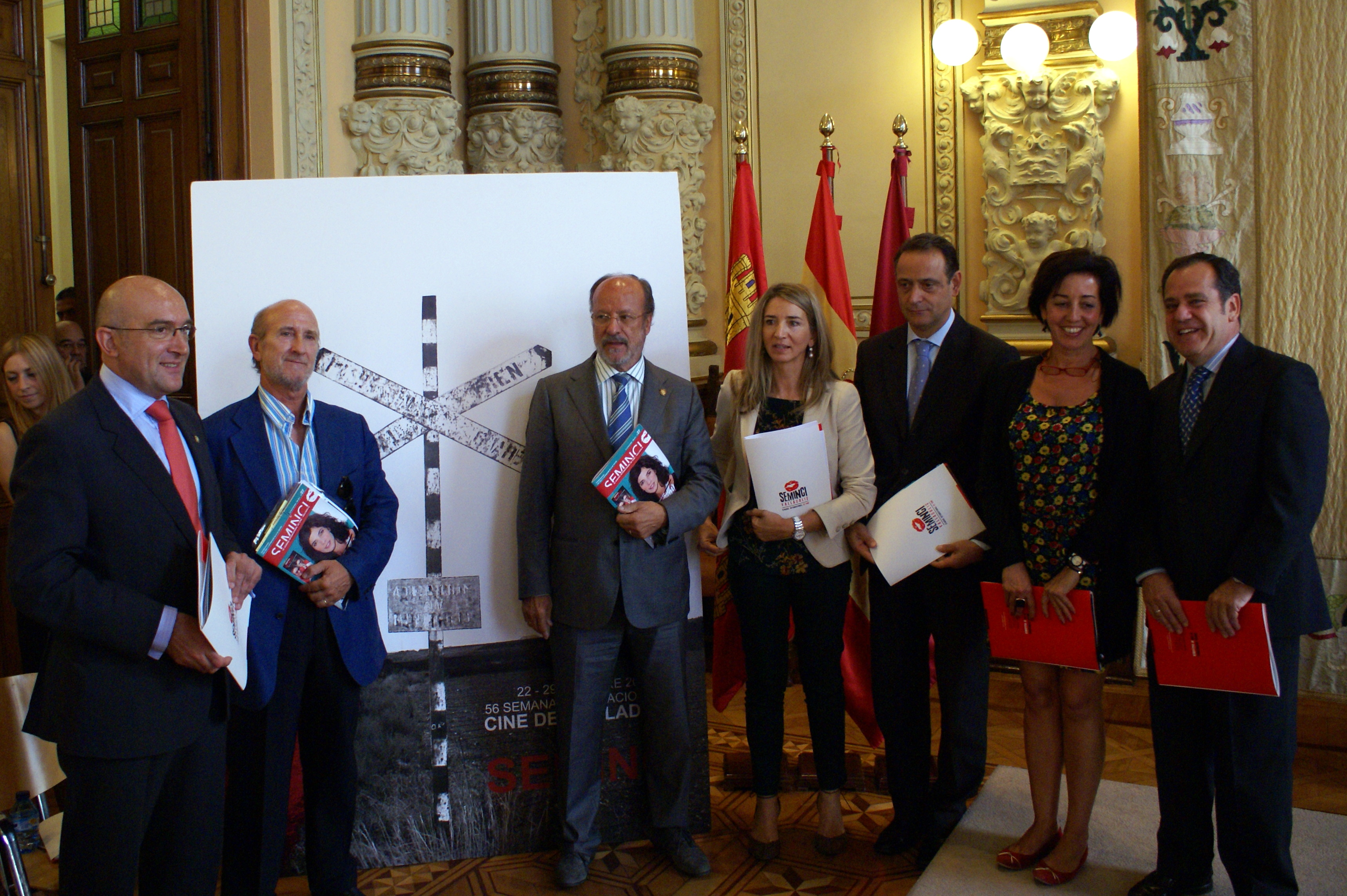 Presentation of the 2011 Seminci in Valladolid's city hall.